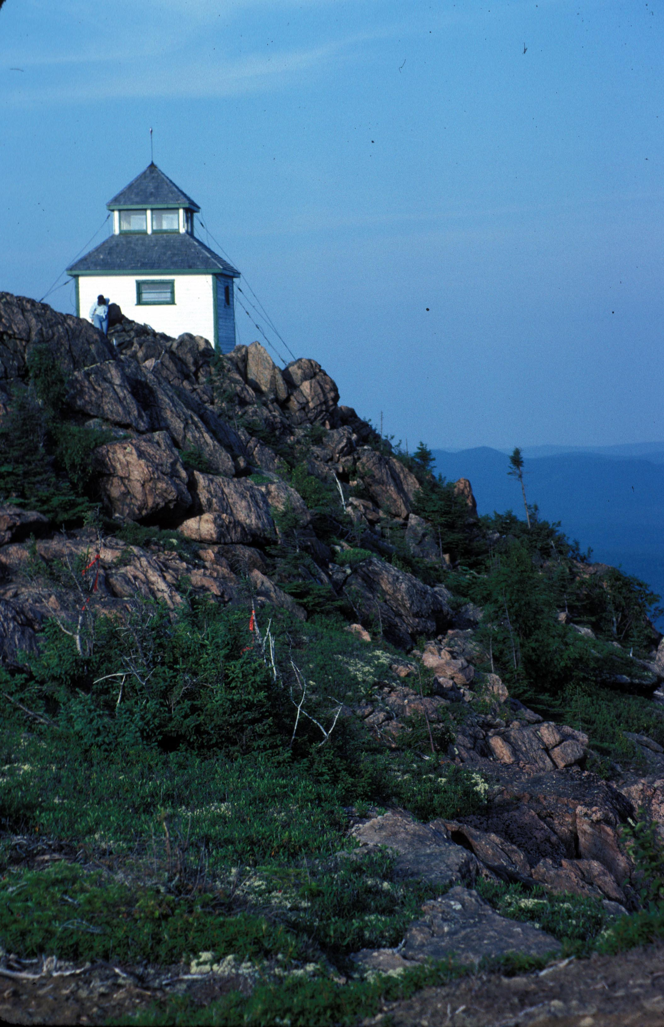 Fire observation hut on Mount Carleton, Northumberland County, New Brunswick (IR Walker 1993)